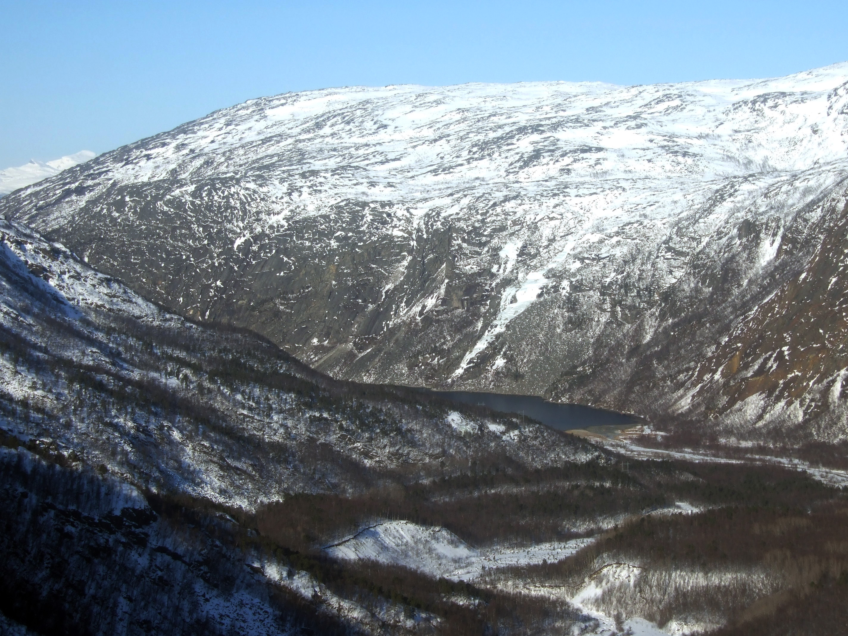 Rombaken fjord, Near Narvik Norway